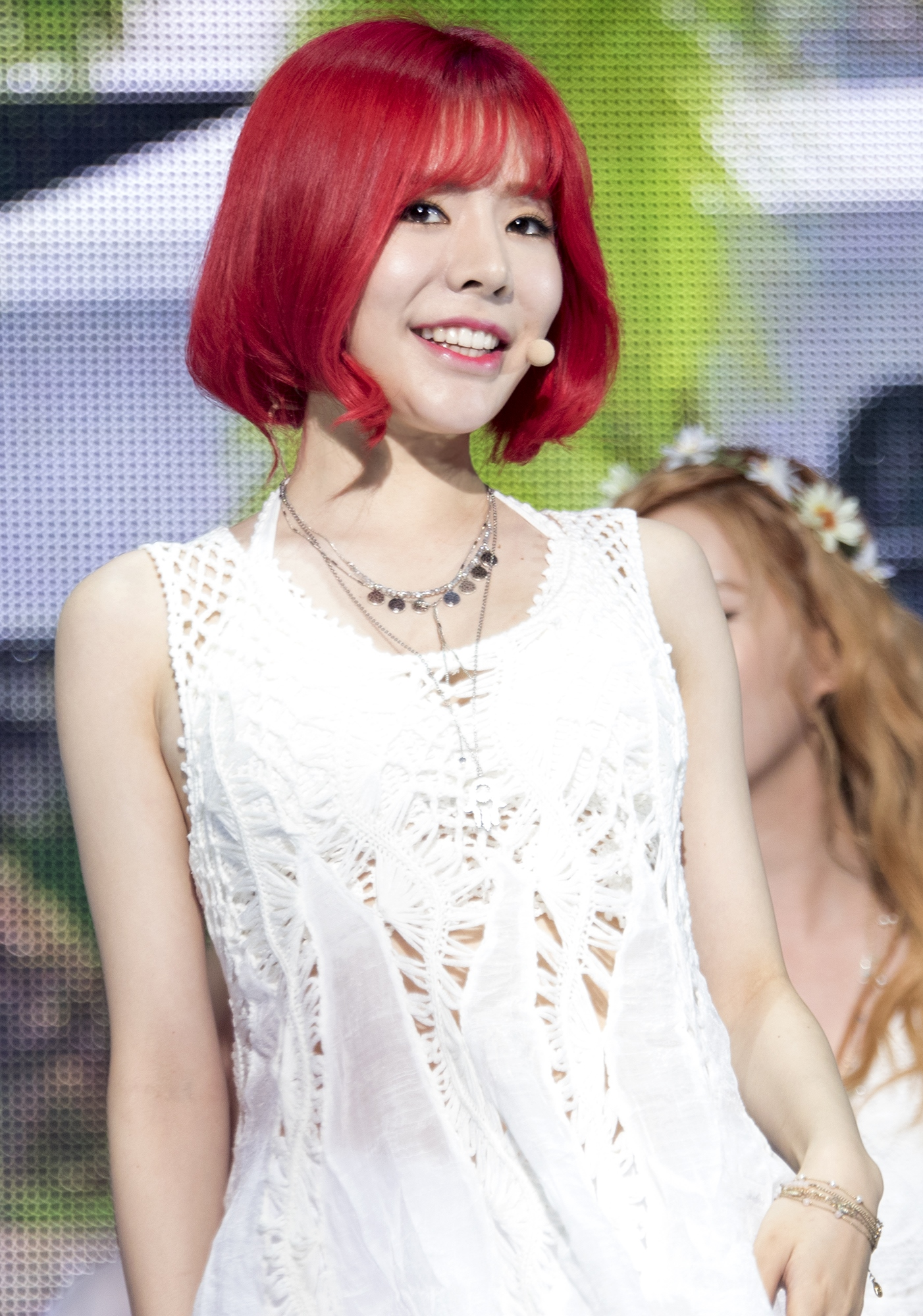 Sunny at Party Showcase on July 7, 2015.